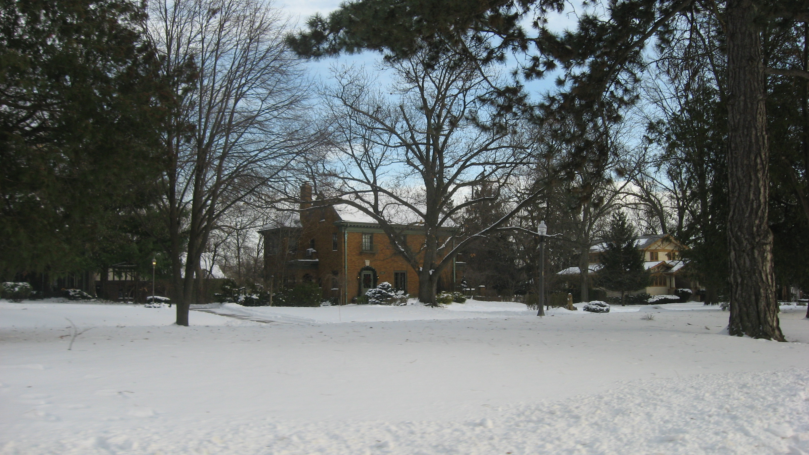 Houses on the eastern side of Forest Park Boulevard in Fort Wayne, Indiana, United States, from left to right: 2020 Forest Park: Neil A. McKay House, Colonial Revival, 1911 2016 Forest Park: Hutner-Baker House, Tudor Revival, 1928 1922 Forest Park: Carl J. Suedhoff House, Colonial Revival, 1925 The neighborhood is part of the Forest Park Boulevard Historic District, a historic district that is listed on the National Register of Historic Places.